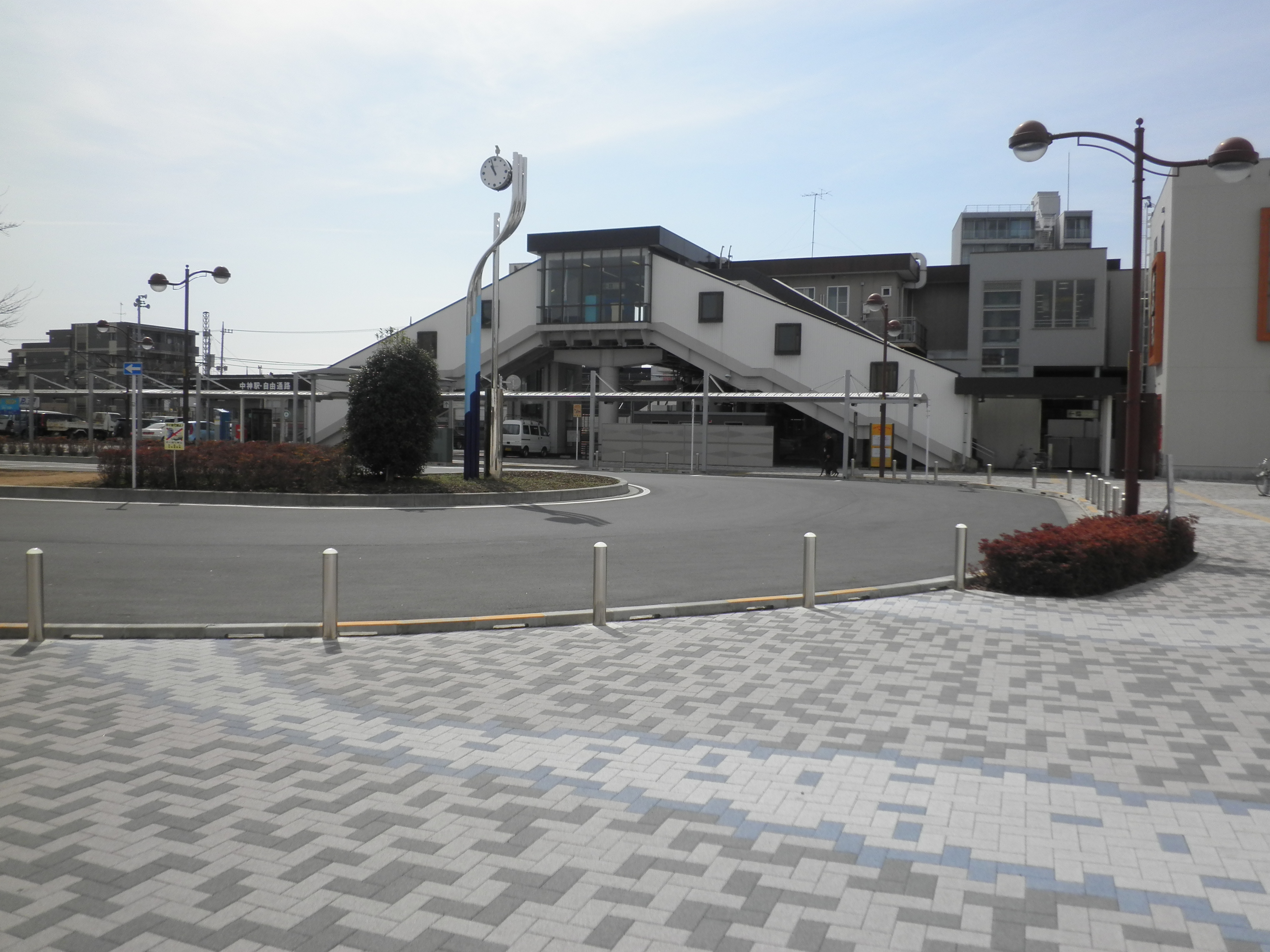 nakagamistation in japan